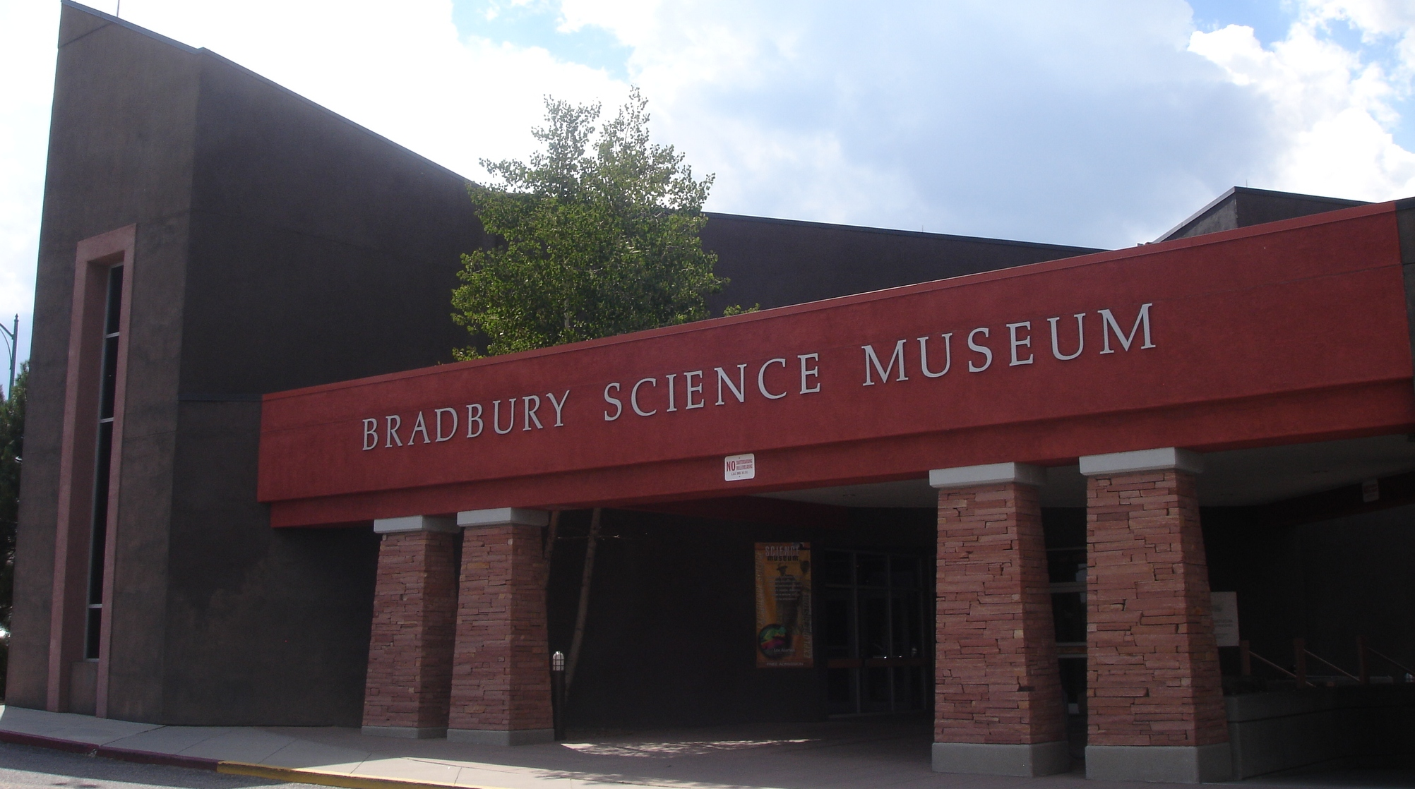 Bradbury Science Museum entrance